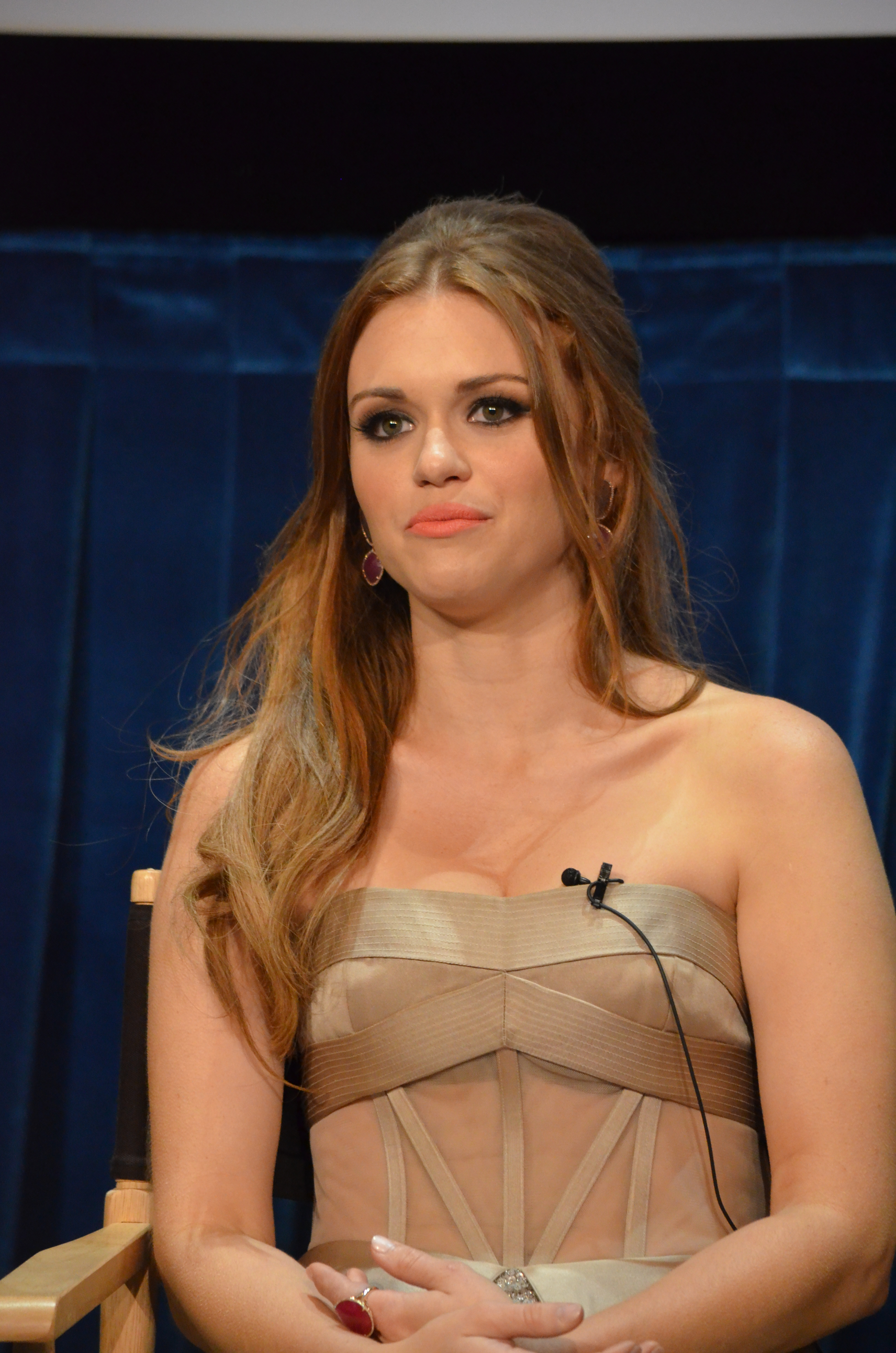 Holland Roden at the Season Two Premiere Screening & Panel of MTV’s Teen Wolf